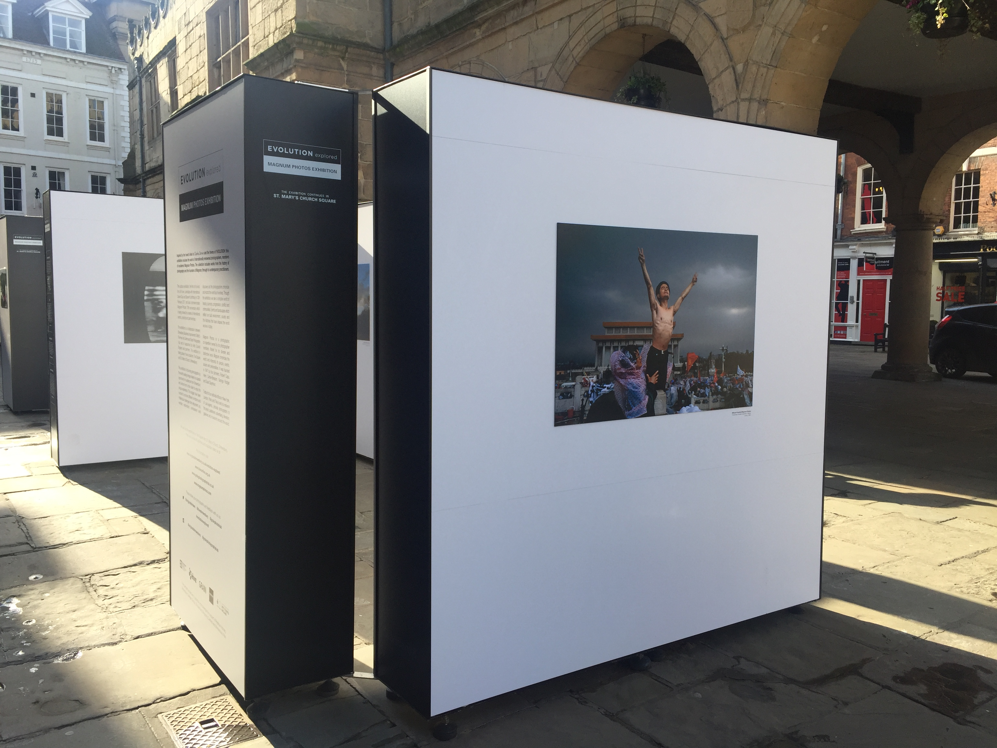 Evolution Explored photography exhibition in Shrewsbury